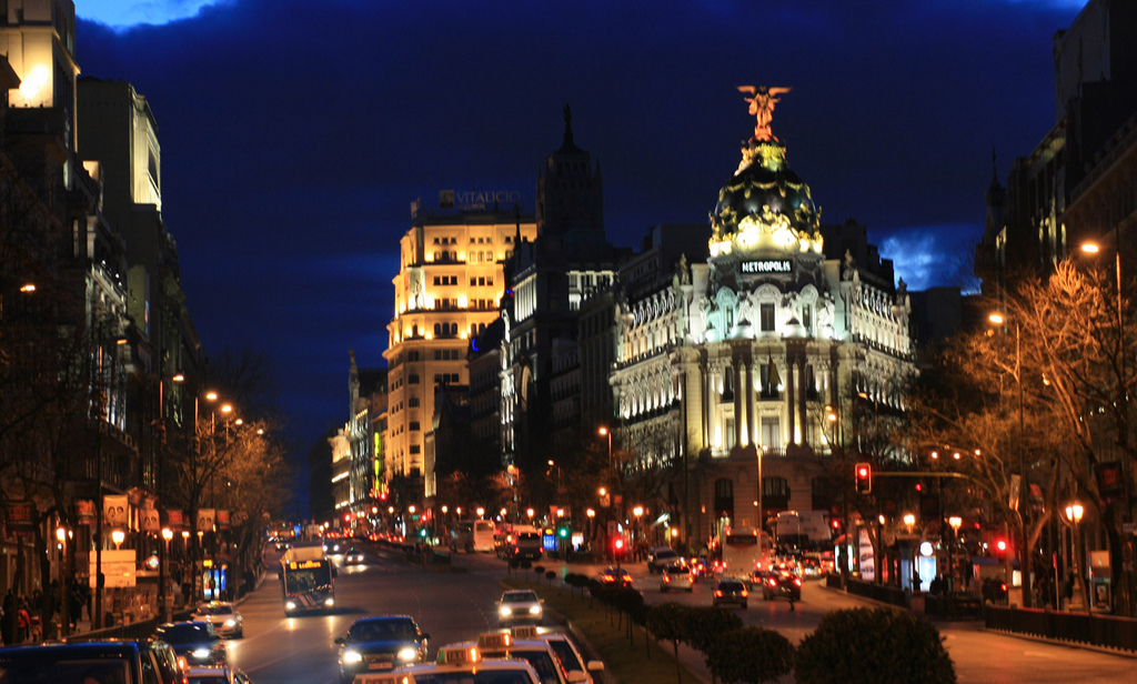 Calle de Alcalá (street) in Madrid (Spain). At the right, the Metropolis Building.